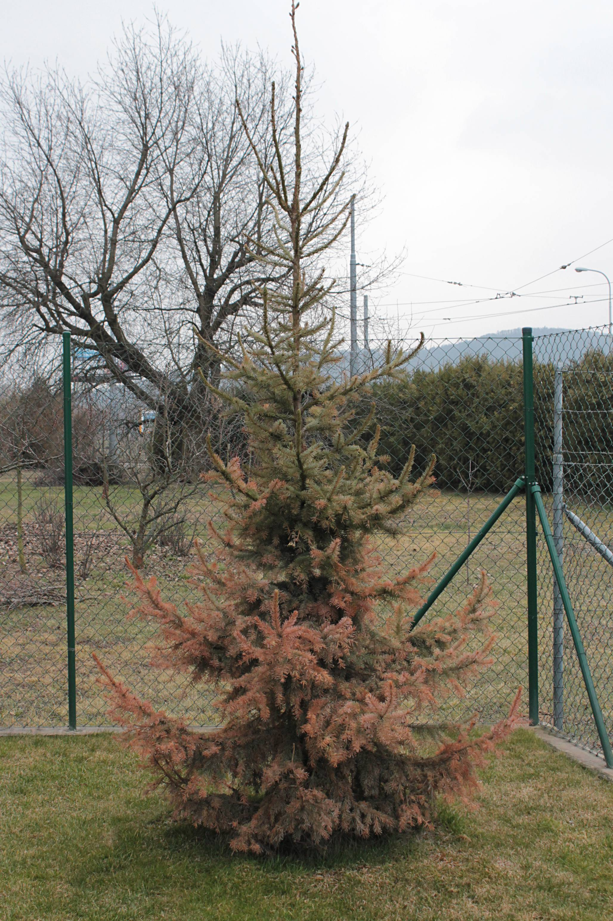 Google translation: Physiological conifer needle blight is a disease caused by abiotic factors . Sudden strong warming during chilly spring can damage the wood . There is strong transpiration during periods when the soil is still frozen and the plant suffers from a lack of available water. Omorika spruce Picea omorica